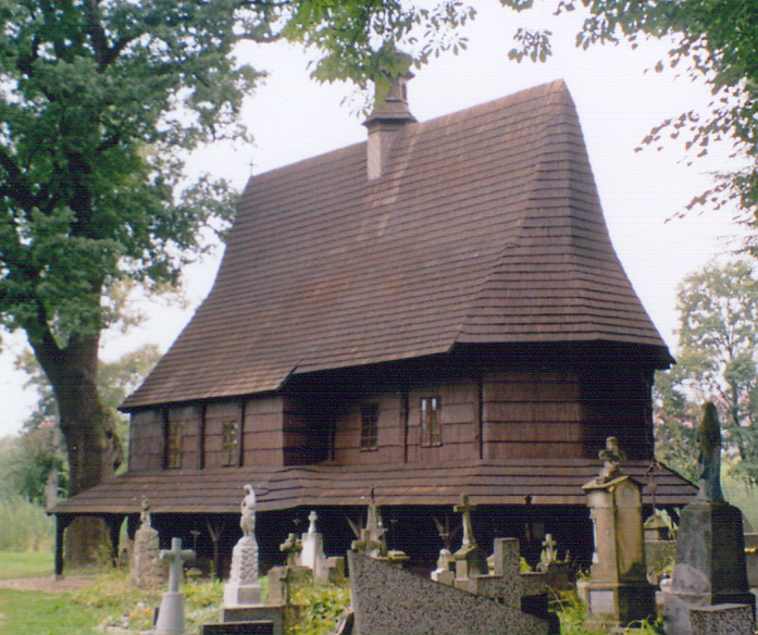 St. Leonard Church in Lipnica Murowana, Poland